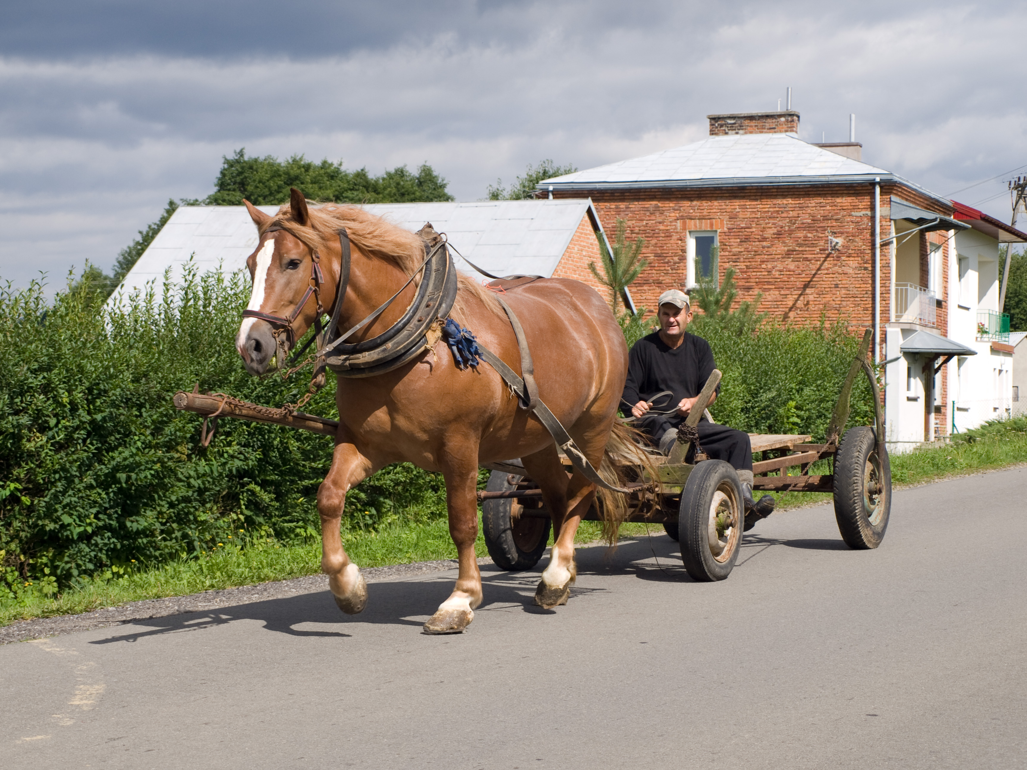 Carrige with a horse, Zmiennica, Podkarpackie Voivodeship